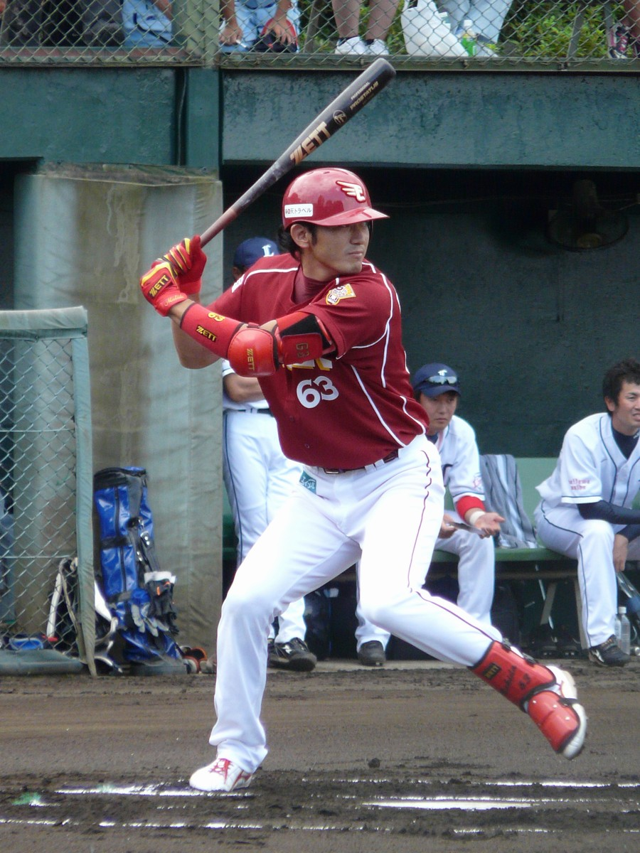 Akihisa Makida, outfielder of the Tohoku Rakuten Golden Eagles, at Seibu Lions Baseball Ground 2.